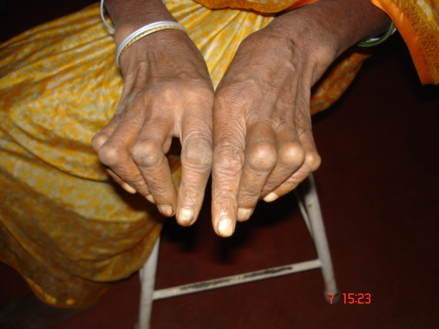 Hand deformity in a patient with Rheumatoid Arthritis showing boutonniere deformity